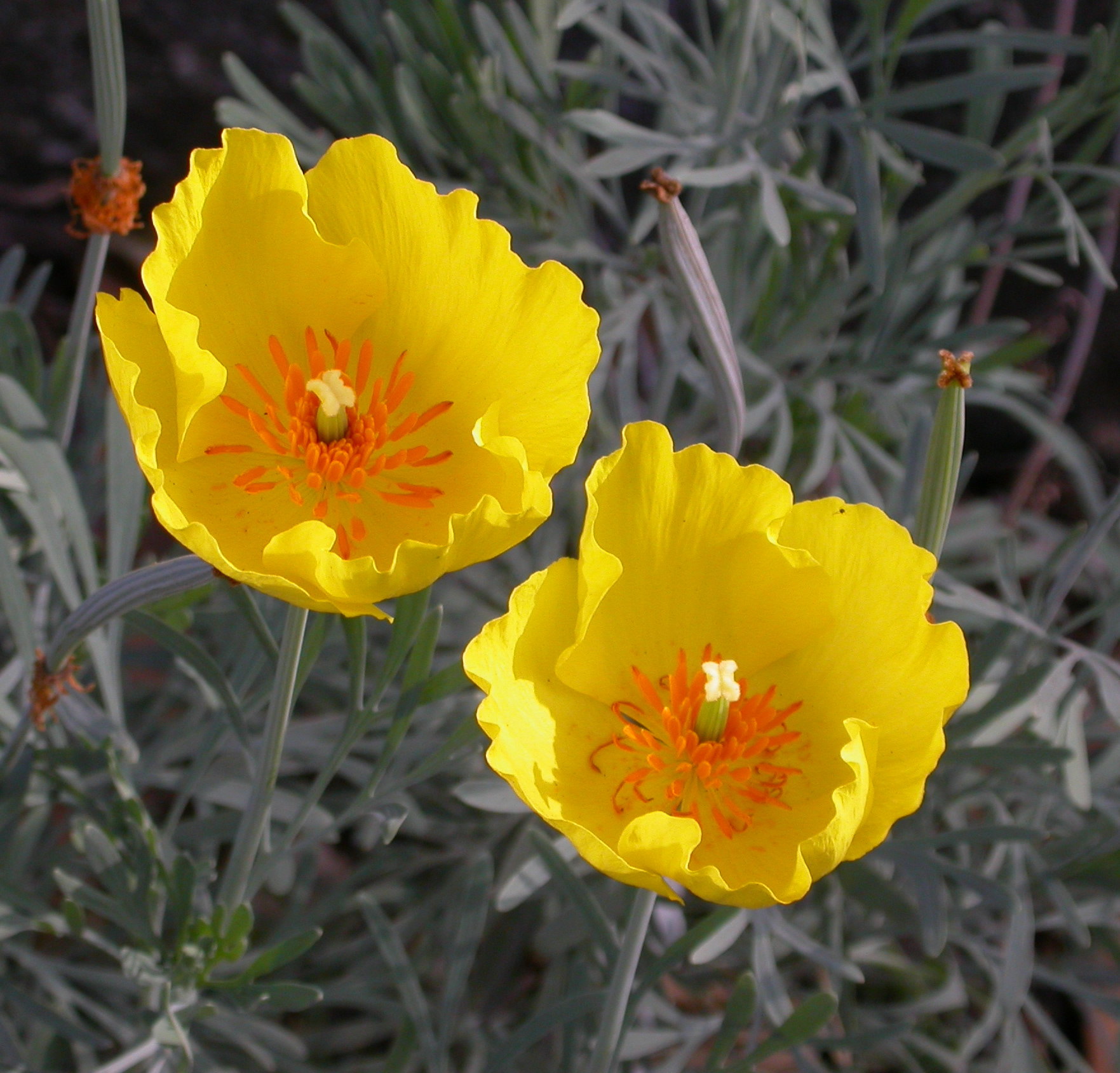 Photographed at BioTrek. Contributed and © by Curtis Clark. Licensed as noted.